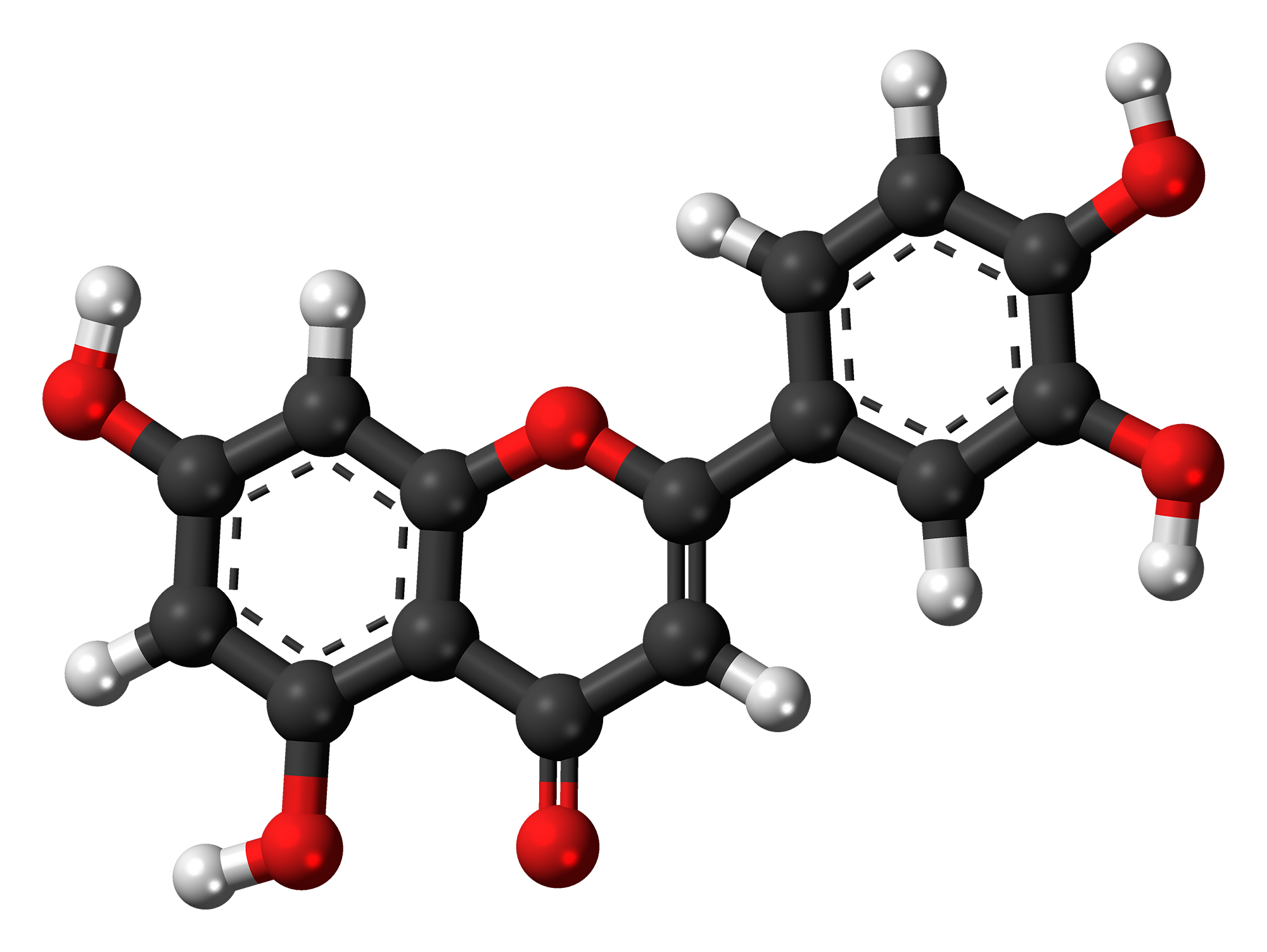 Ball-and-stick model of the luteolin molecule, a flavone found in mostly in leaves. Color code: Carbon, C: black Hydrogen, H: white Oxygen, O: red